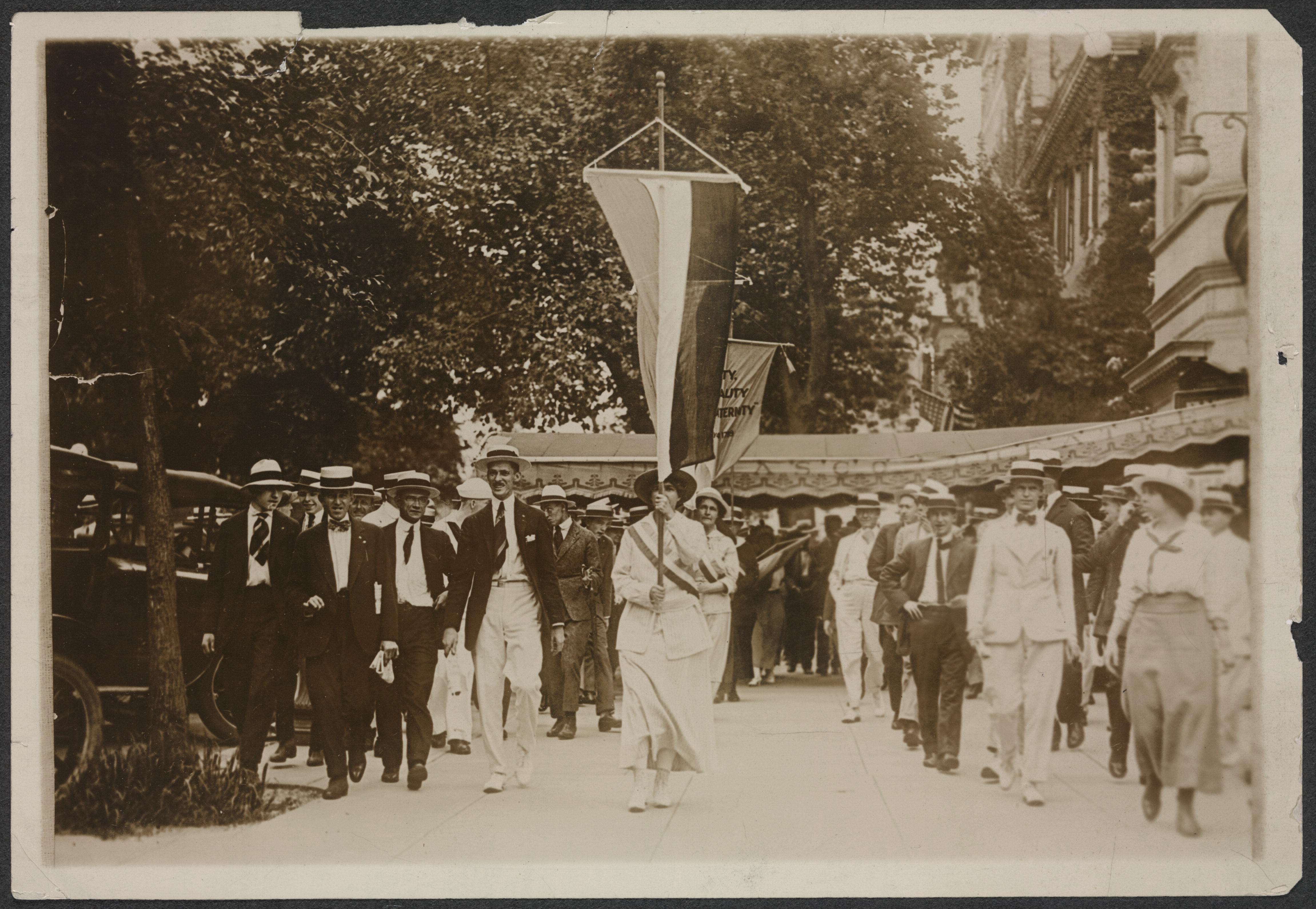 Photograph of Julia Hurlbut leading procession of (two) suffragists down city sidewalk, both suffragists wear suffrage sashes and hold aloft suffrage banners, Hurlbut holds the colors, and the second banner behind her has text (obscured), while crowds of men walk along beside on both sides of the women, and Iris Calderhead appears at right monitoring progress of the pickets. Julia Hurlbut of Morristown, N.J., was vice chairman of the New Jersey branch of the NWP. In 1916 she assisted in Washington state campaign. She was arrested picketing July 14, 1917, and sentence to 60 days in Occoquan Workhouse. She was pardoned by President Wilson after three days. She engaged in war work in France during World War I. Iris Calderhead of Marysville, Kans., and later, Denver, Colo., was arrested July 4, 1917 for picketing and served three days in District Jail. Source: Doris Stevens, Jailed for Freedom (New York: Boni and Liveright, 1920), 362, 369.